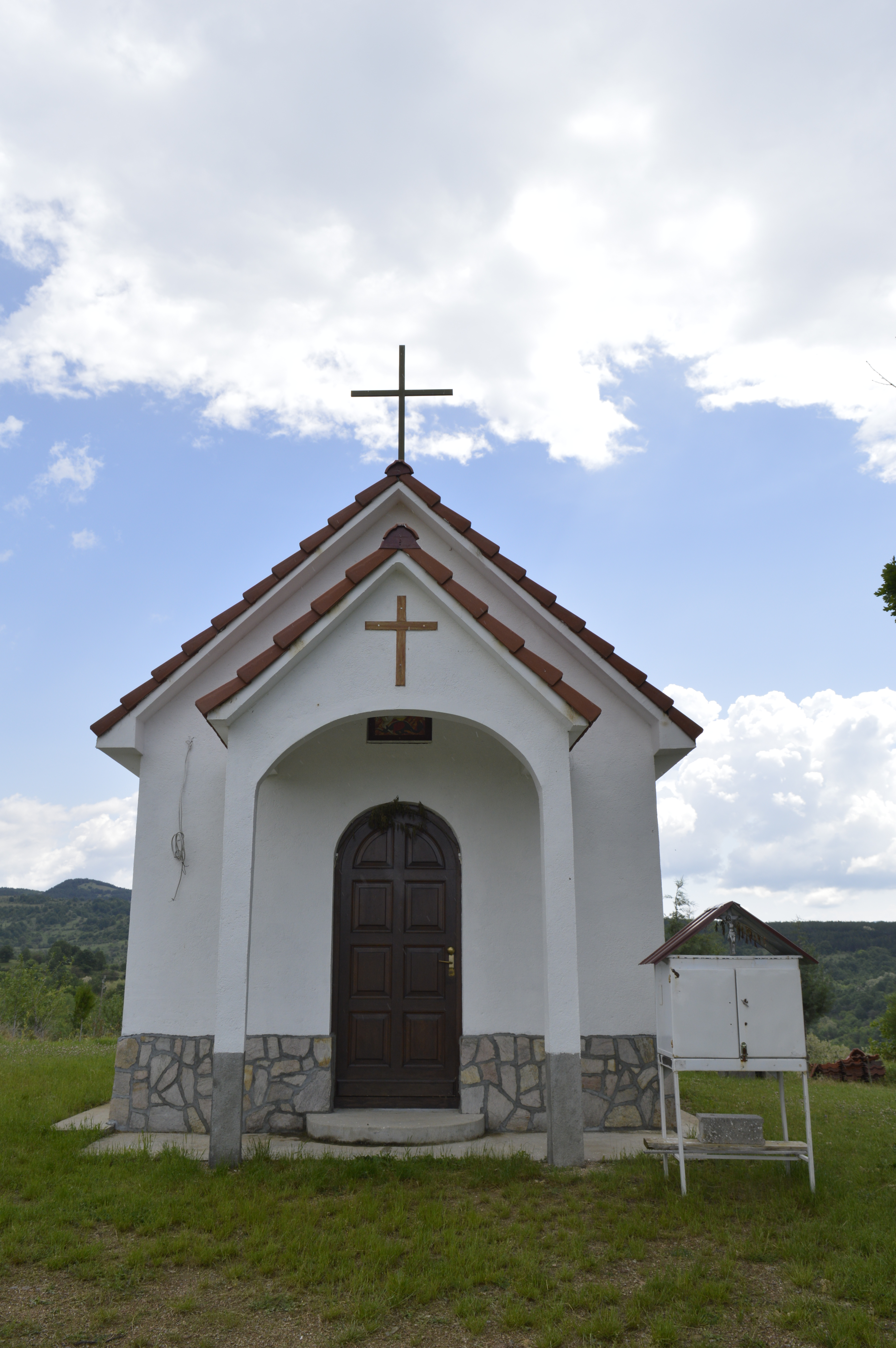 View of the St. George's Church in the village Kiselica